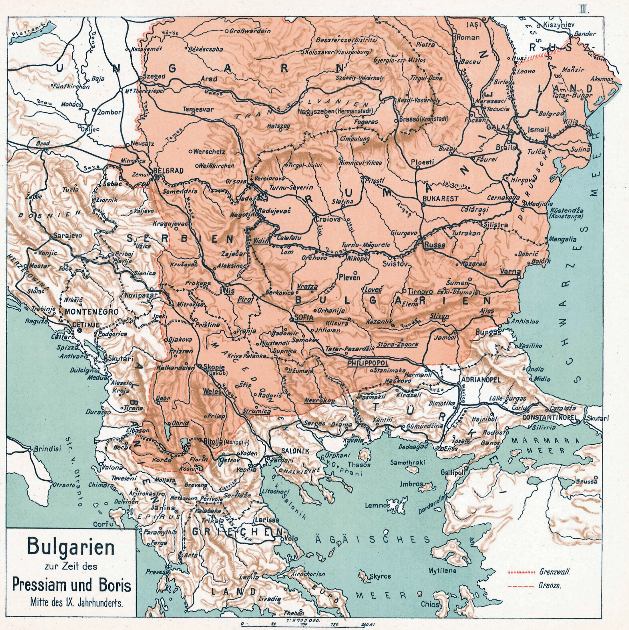 Bulgaria at the time of Pressiam and Boris